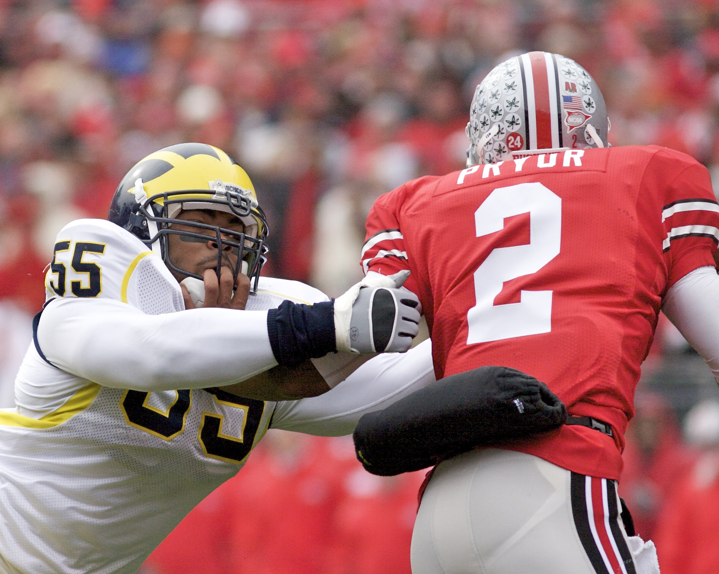 Brandon Graham (American football) and Terrell Pryor